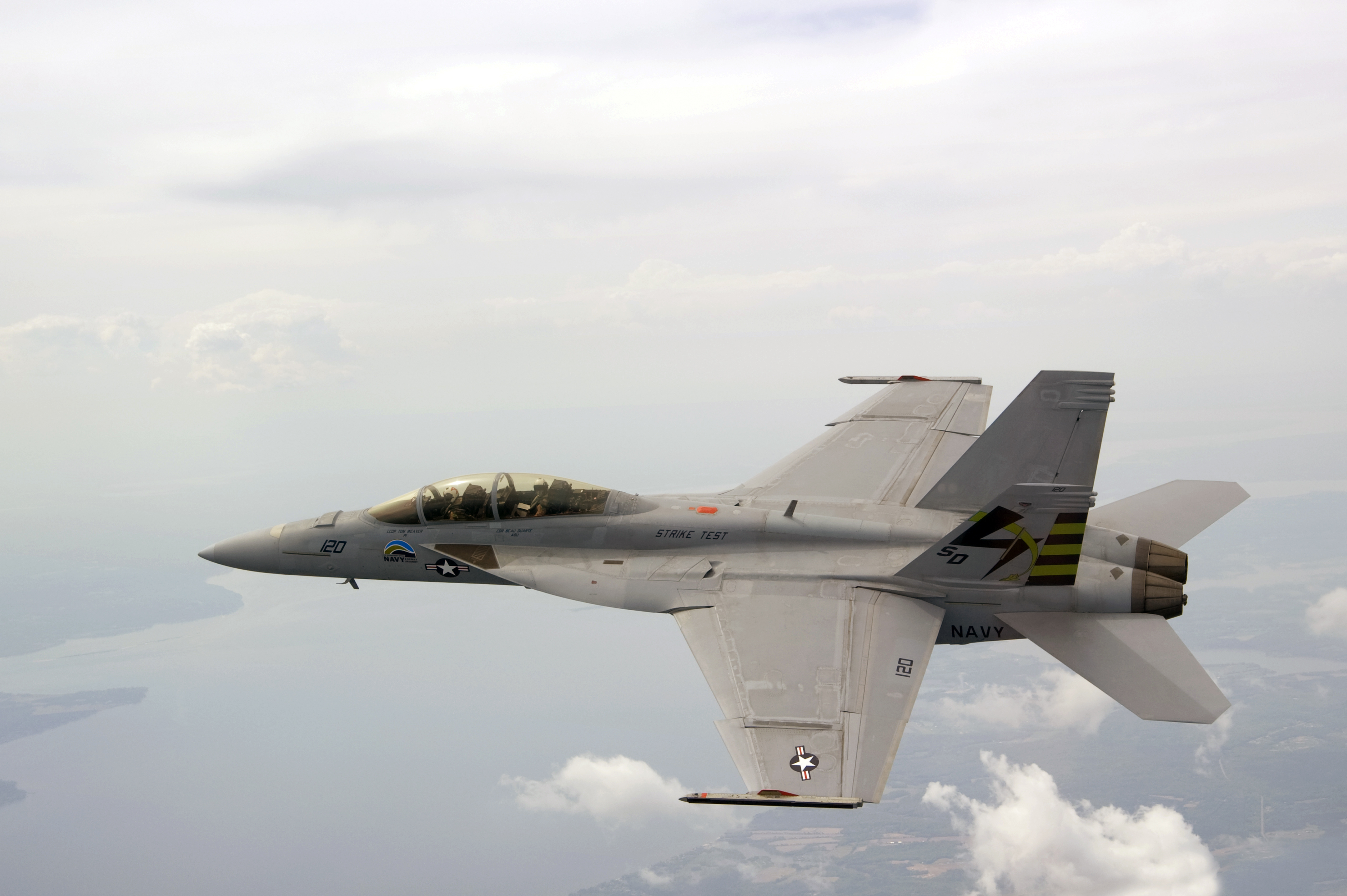 PATUXENT RIVER, Md. (April 22, 2010) An F/A-18F Super Hornet strike fighter, dubbed the "Green Hornet," conducts a supersonic test flight. The aircraft is fueled with a 50/50 blend of biofuel and conventional fuel. The test, conducted at Naval Air Station Patuxent River, Md., drew hundreds of onlookers, including Secretary of the Navy Ray Mabus, who has made research, development, and increased use of alternative fuels a priority for the Department of the Navy. (U.S. Navy photo by Liz Goettee/Released)